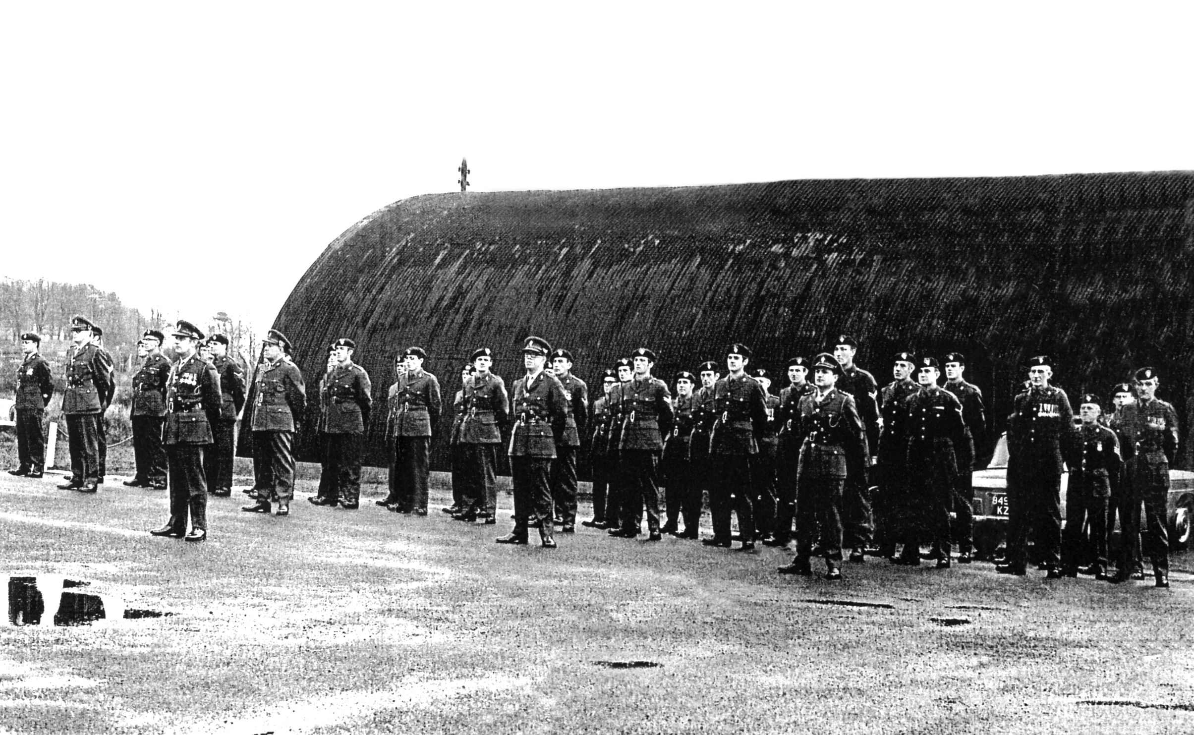 Soldiers of C Company 1st Battalion Ulster Defence Regiment on parade at Steeple Camp, Antrim. Remembrance Sunday, 1970.